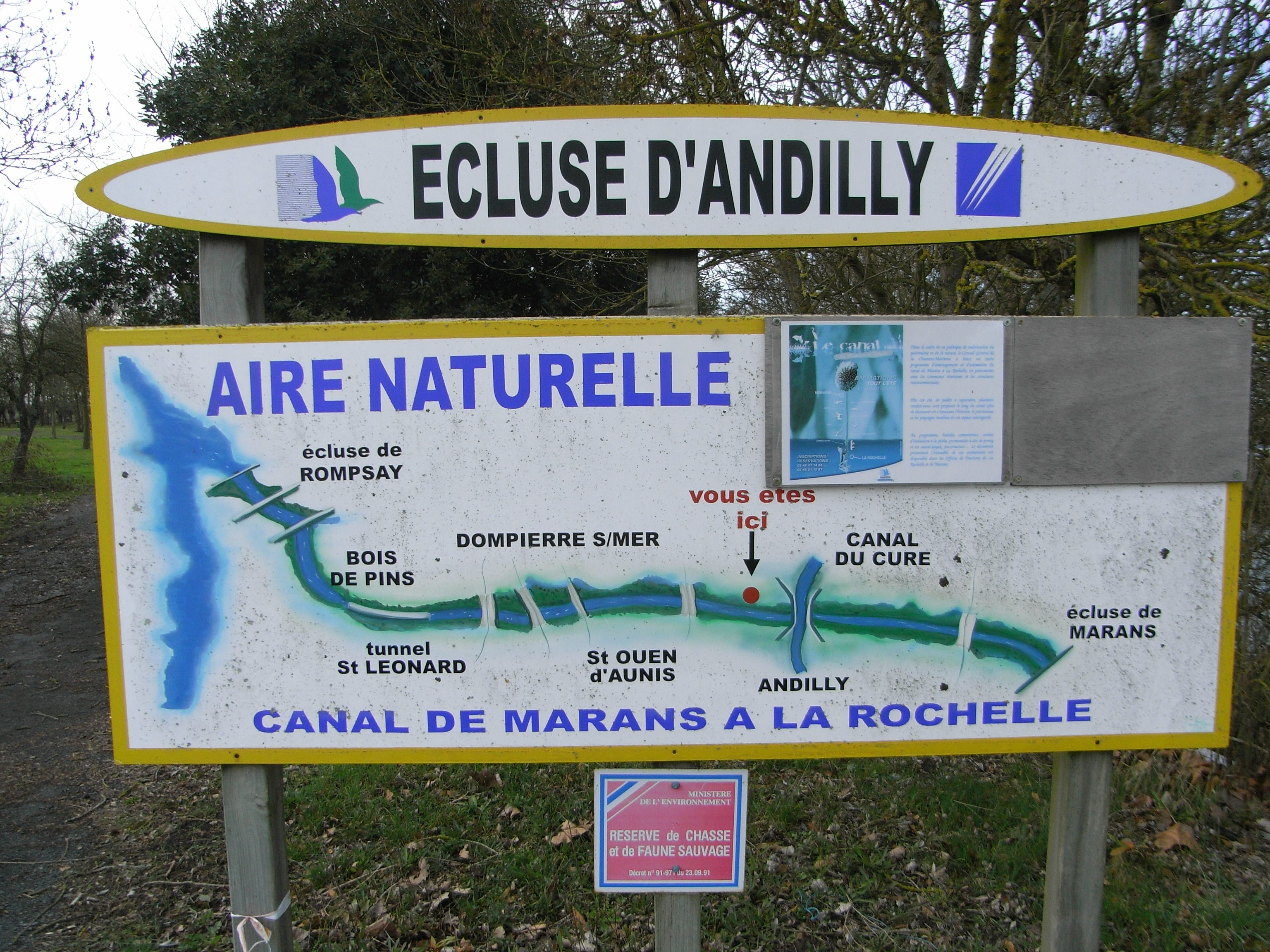 French canal to La Rochelle at Marans in Charente-Maritime (17) - draw